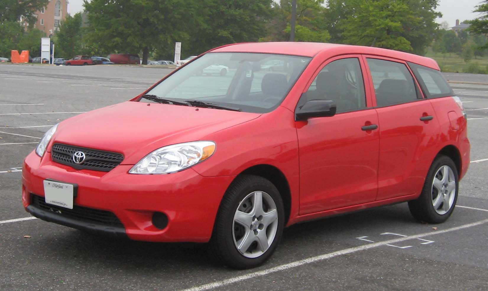 2005-2008 Toyota Matrix photographed in College Park, Maryland, USA.